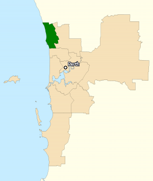 Incorporates or developed using Administrative Boundaries ©PSMA Australia Limited licensed by the Commonwealth of Australia under Creative Commons Attribution 4.0 International licence (CC BY 4.0). Derived from State and Territory Boundaries from the Australian Bureau of Statistics under Creative Commons Attribution 2.5 Australia license (CC BY 2.5 AU)